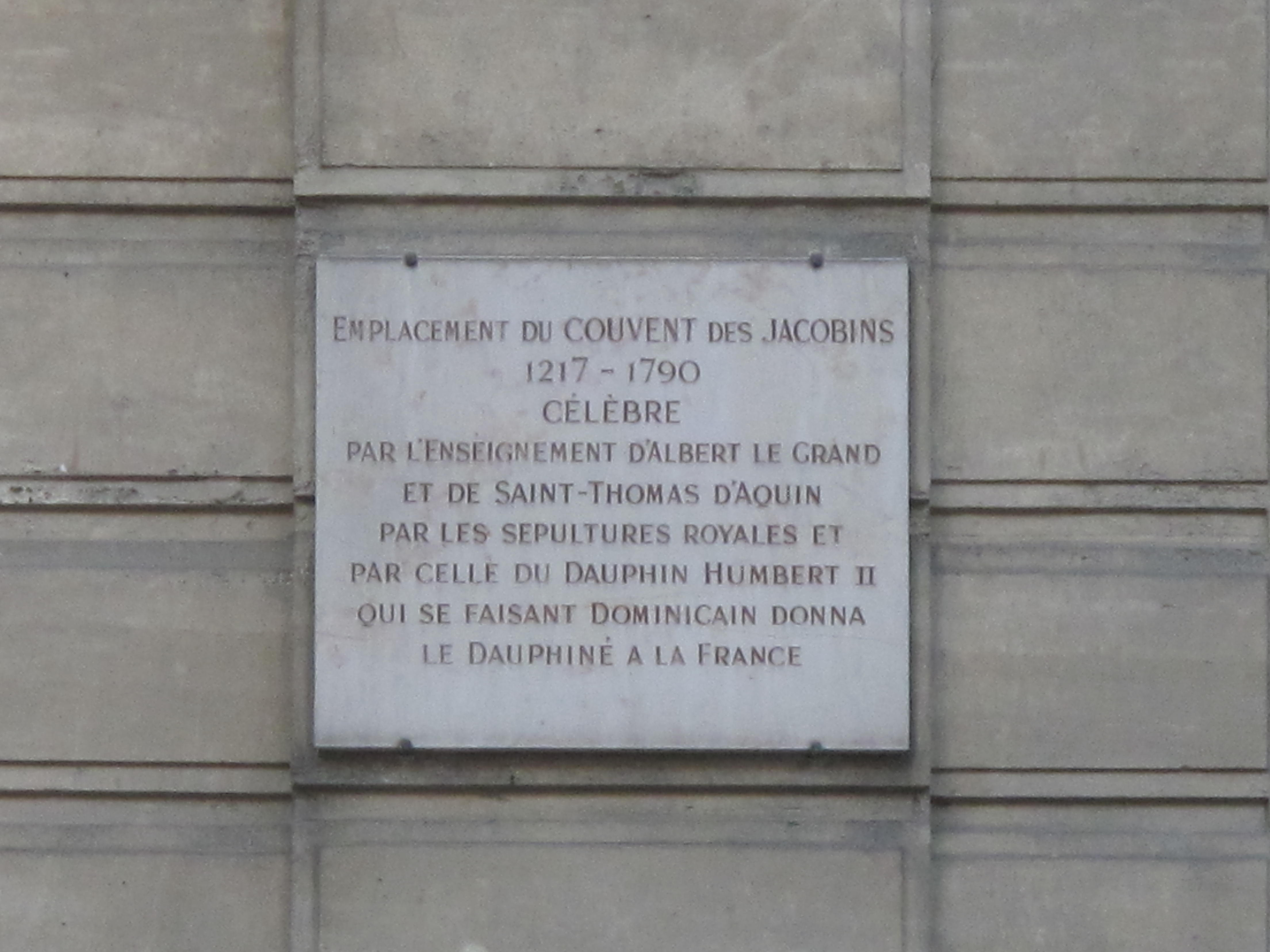 Plaque at the location of the convent of Jacobins, 14 rue Soufflot, Paris 5th arrond.